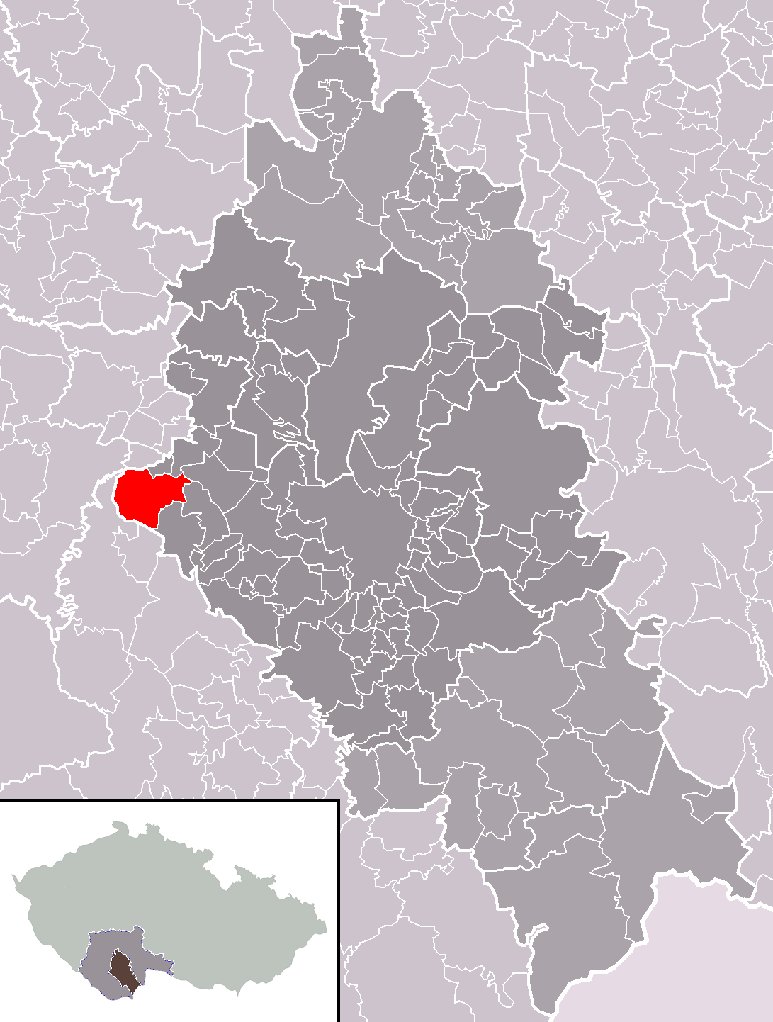 Location of Záboří municipality within České Budějovice District and administrative area of České Budějovice as a Municipality with Extended Competence.